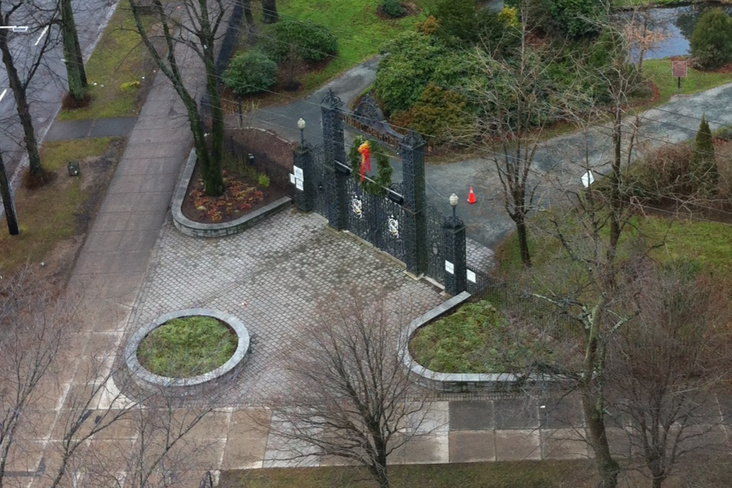 Halifax Public Gardens Entrance